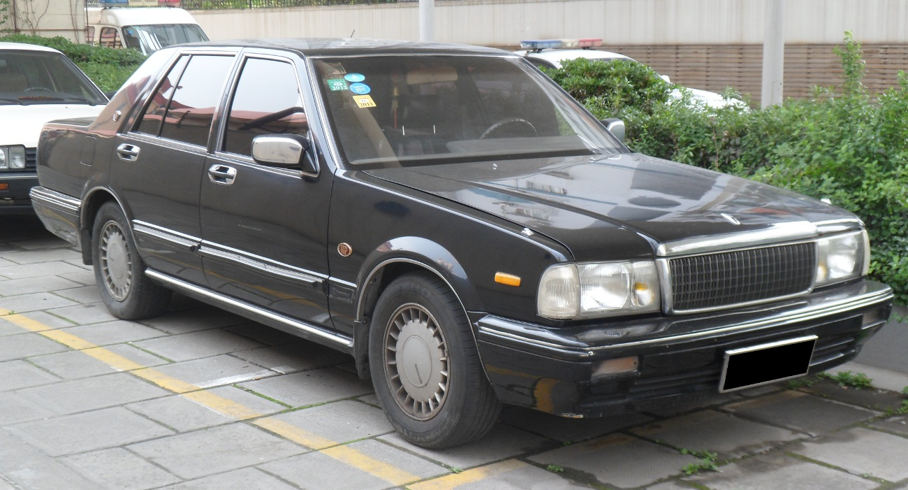 Nissan Cedric Y31 Sedan Brougham VIP photographed in Shanghai, China.